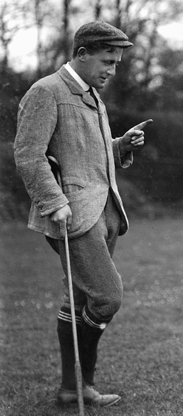 Gloucestershire and England batsman Gilbert Jessop (famous for his innings of 104 in 77 minutes v Australia in 1902) receiving golf tuition from Harold Hilton (Open Golf Champion) circa 1904.